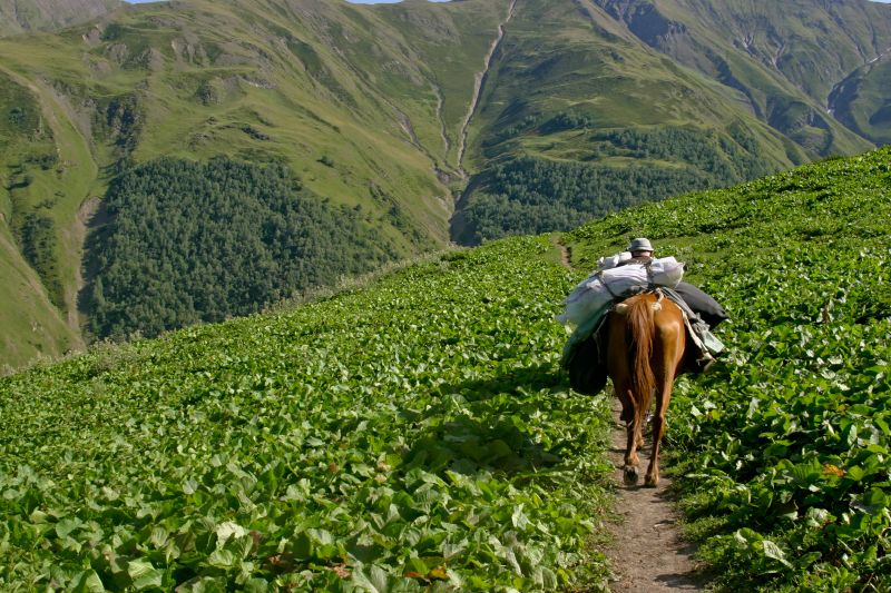 Field in Tusheti.